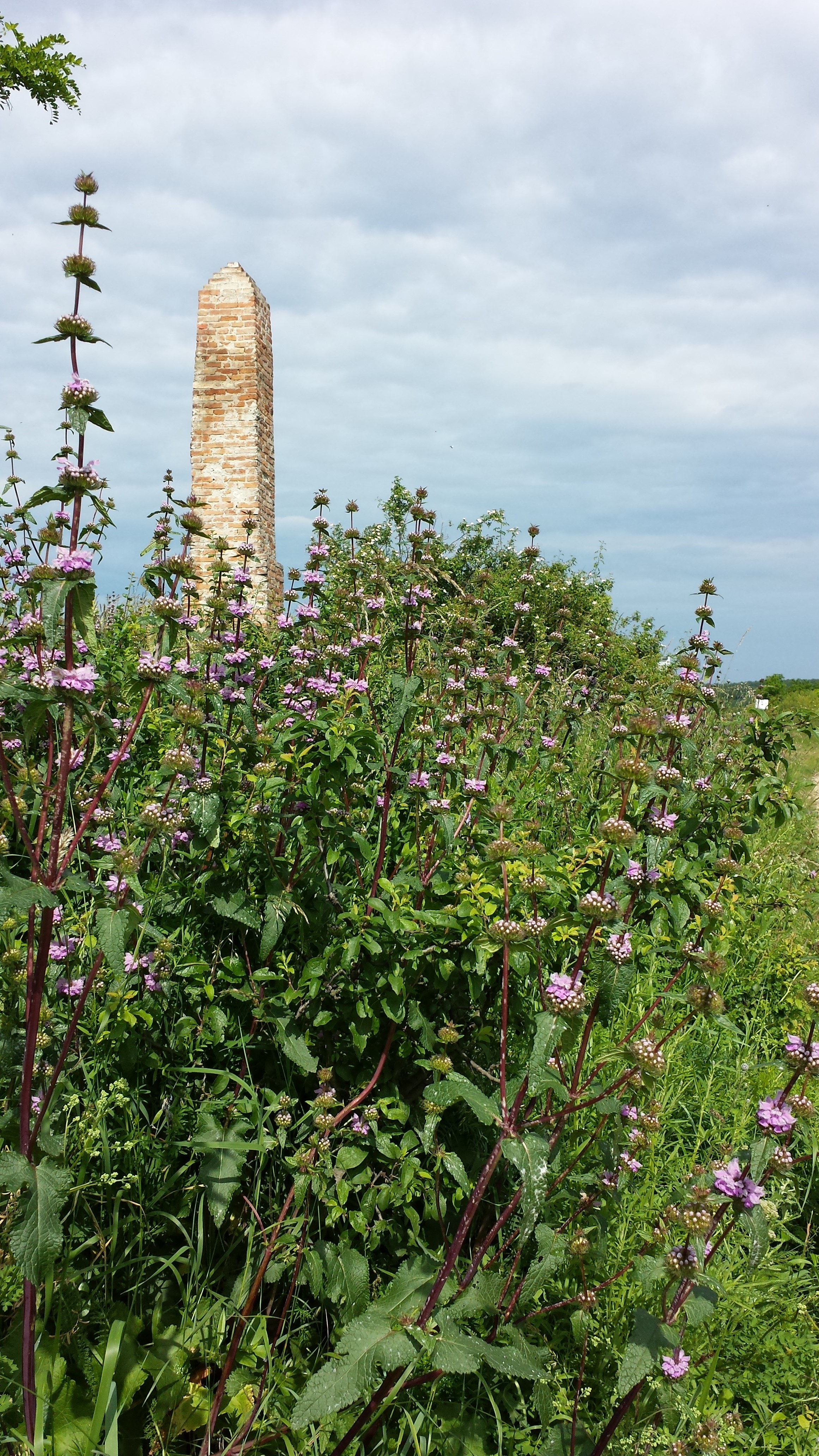 Gallows with plants Taxon: Phlomis tuberosa (sensu Fischer et al. EfÖLS 2008) Location: Gallows hill near Oberstinkenbrunn, district Hollabrunn, Lower Austria - ca. 340 m a.s.l. Habitat: dry grassland